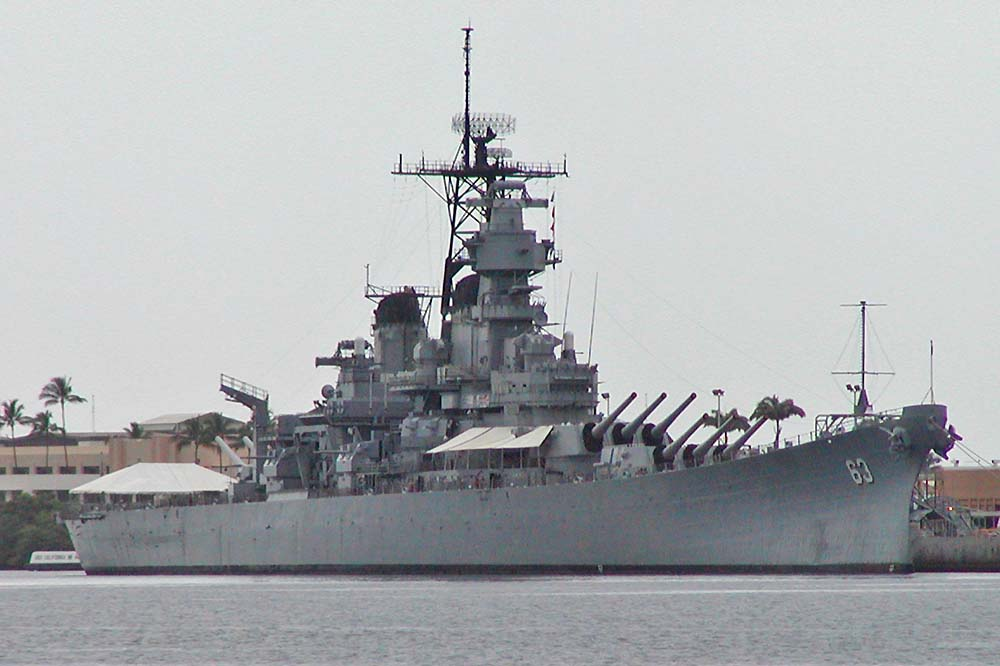 Photo of USS Missouri (BB-63) at Pearl Harbor